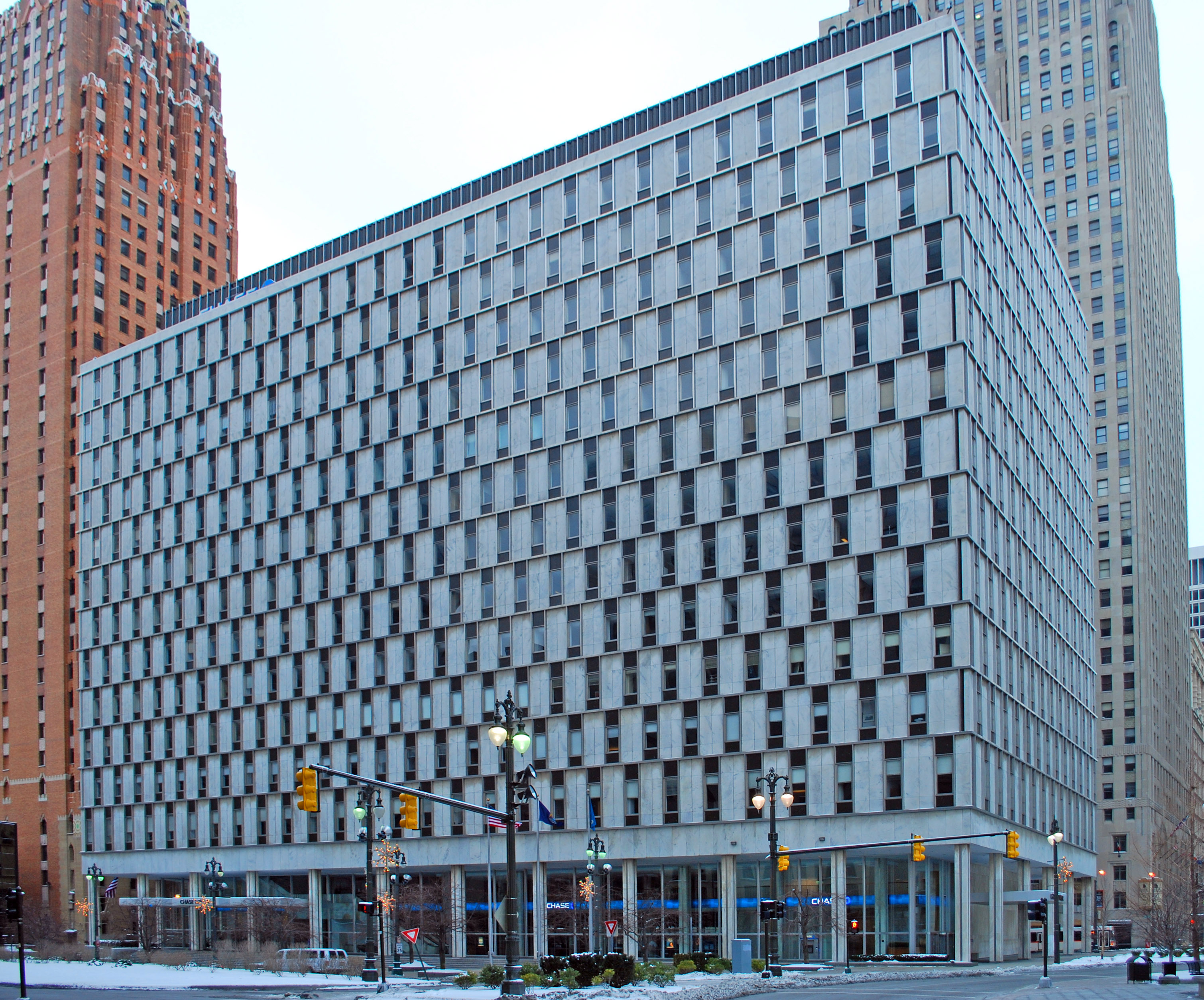 National Bank of Detroit Building — Detroit Financial District. Built in 1959.